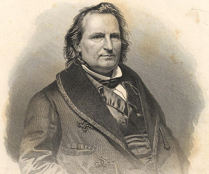 Book engraving of Joseph Henry Lumpkin, Chief Justice of the Supreme Court of Georgia. Published in Portraits of eminent Americans now living: with biographical and historical memoirs of there lives and actions, by John Livingston. New York: Cornish, Lamport & Co., 1853-54